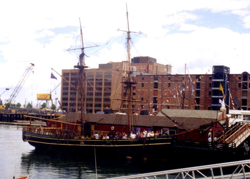 The brig Beaver at Griffin Wharf, Boston, USA